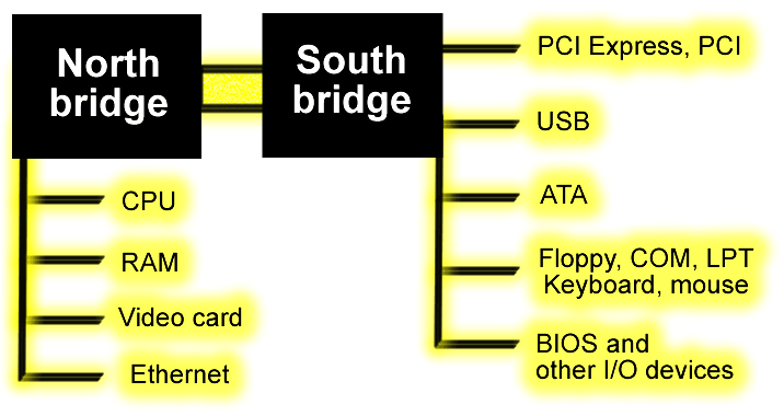 North/southbridge Functionalitys